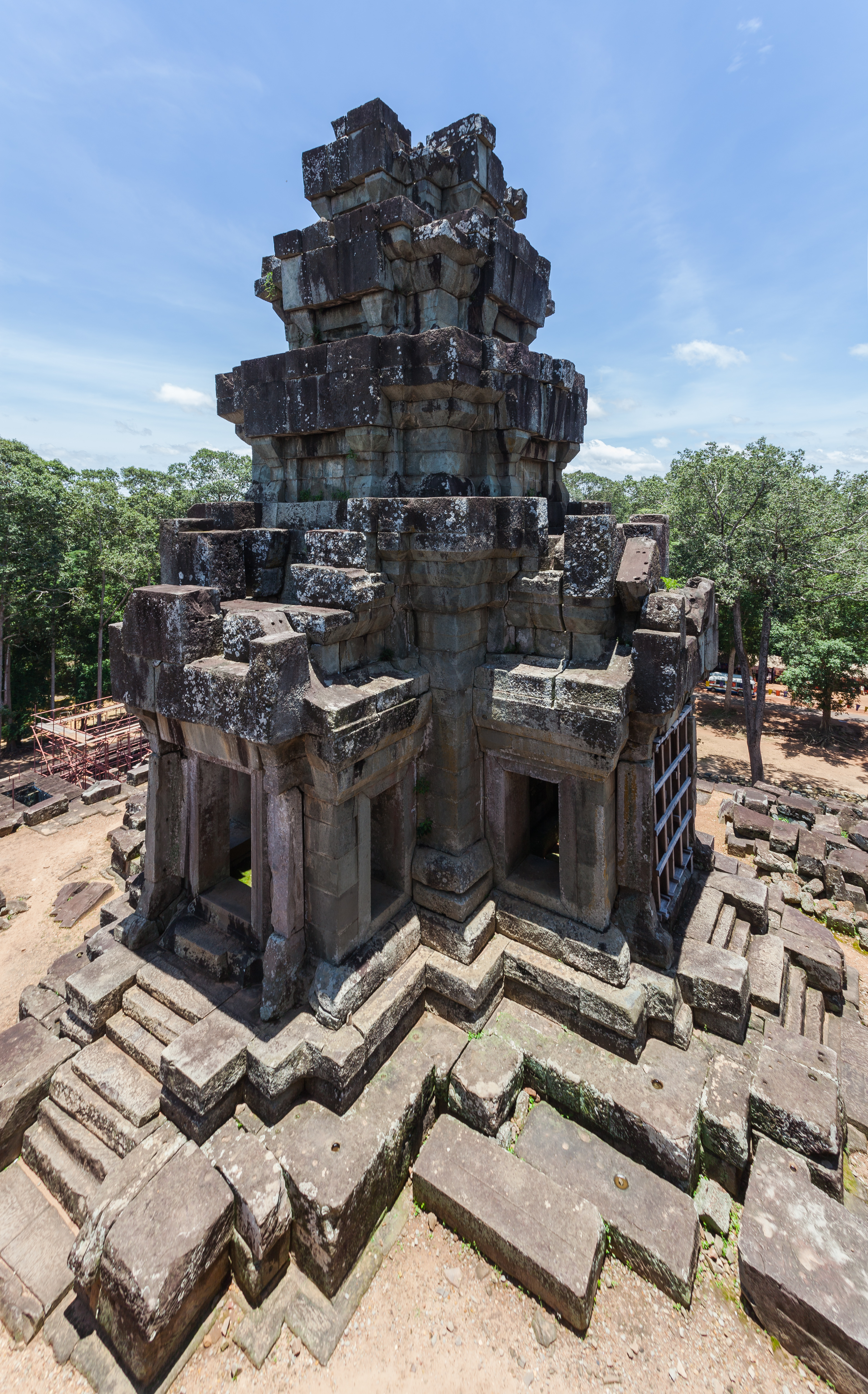 Ta Keo, Angkor, Cambodia